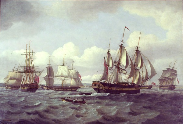 The Ship 'Castor' and Other Vessels in a Choppy Sea A line of merchant ships with a coastline in the distance. They were engaged in transatlantic trade and on these grounds it has been suggested that they are shown off the coast of New England, though this is only speculation: it may be of their as yet unidentified home port in England. The ship in the foreground to the right bears the name 'Castor' on the stern. Four ships of that name were built and it is likely that this painting depicts that built in 1782 by Spedding and Company, Whitehaven. The ship was built with 18-guns, and it traded to Philadelphia, the West Indies and New York. She saw service for seven years, commanded by Daniel Brocklebank, after which time she was sold. Figures can be seen on the deck of the 'Castor', preparing the ship to sail. The ship at anchor on the left has the name 'Mars', a ship built by the Scottish firm, Wise and Co. The ship on the far right bears the name 'Iris' on her stern and that between her and the 'Castor', with only the after part visible, bears the name 'Mariner' on hers. All the ships are flying the 1801 red ensign. A small boat in the foreground rows across the line of ships, with five figures on board. Luny was a skilled ship portraitist and from the late 1780s onwards he painted a great number of works depicting ships of the East India Company, and others. This painting, which was produced before he started keeping a list of his output in 1807, was probably commissioned either by one of the ship's captains, who wanted to have a record of the ships they had sailed on, or a merchant involved in the trade shown. The artist has inscribed the painting 'T Luny 1802', on a spar on the left. The Ship 'Castor' and Other Vessels in a Choppy Sea